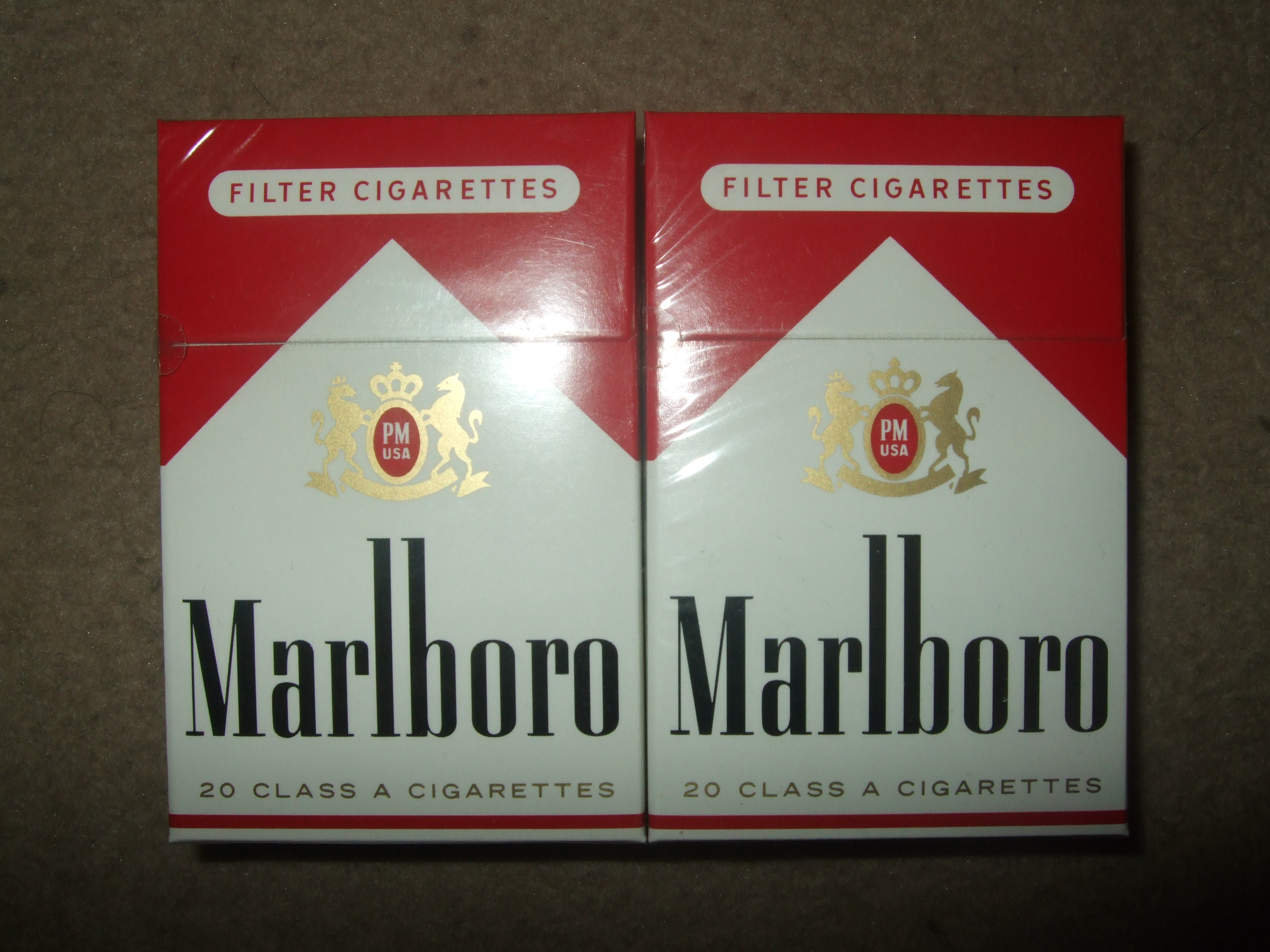 2 packets of American duty-free Marlboro